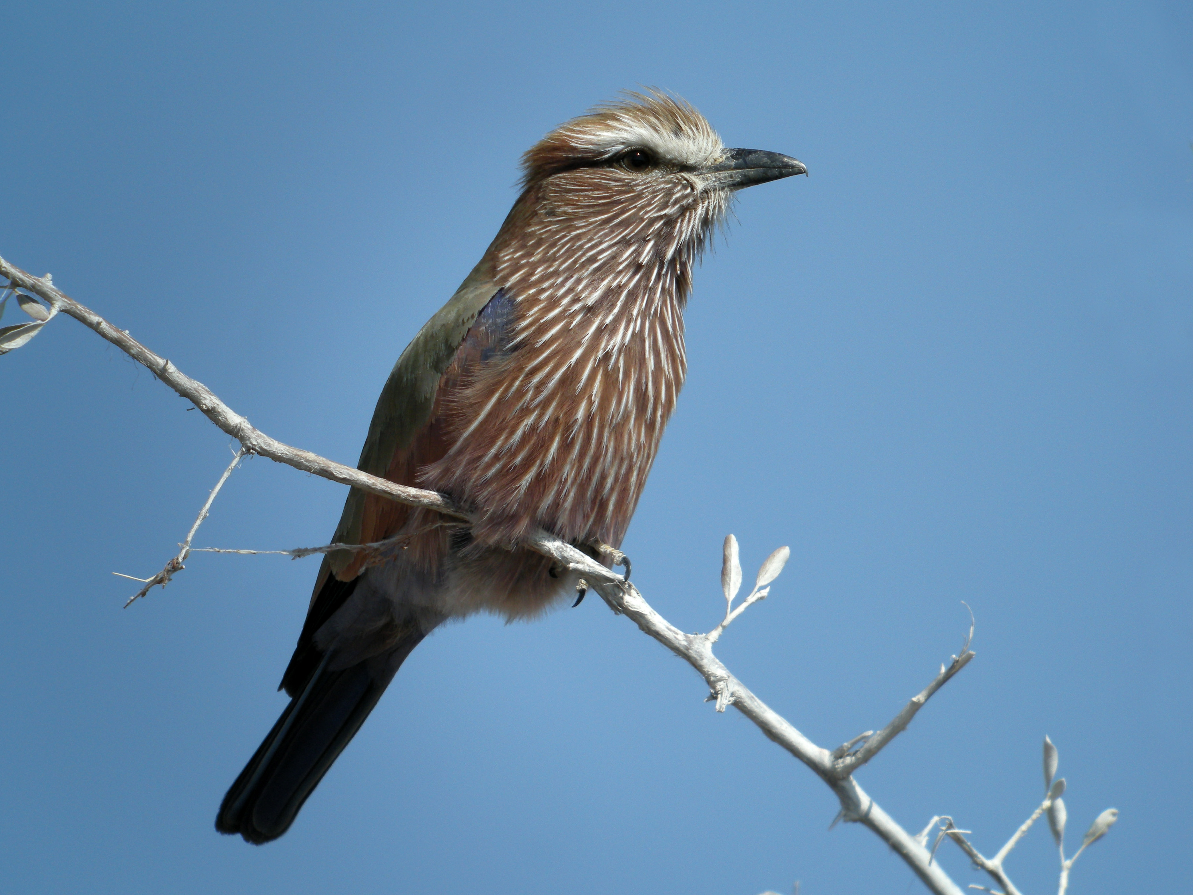 A Rufous-crowned Roller at Etosha National Park, Namibia.